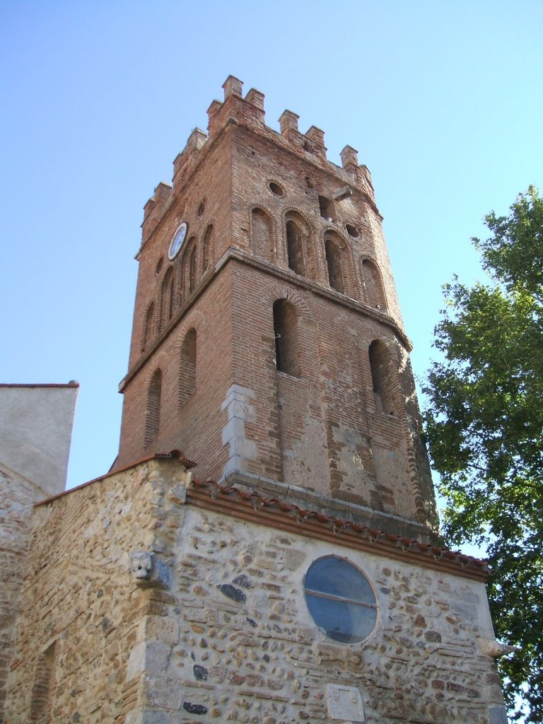 Claira : Saint-Vincent church (XIVth century, partially rebuild and extended afterwards